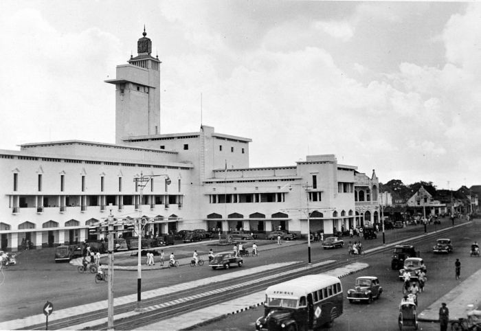 The palace of the governor of East Java